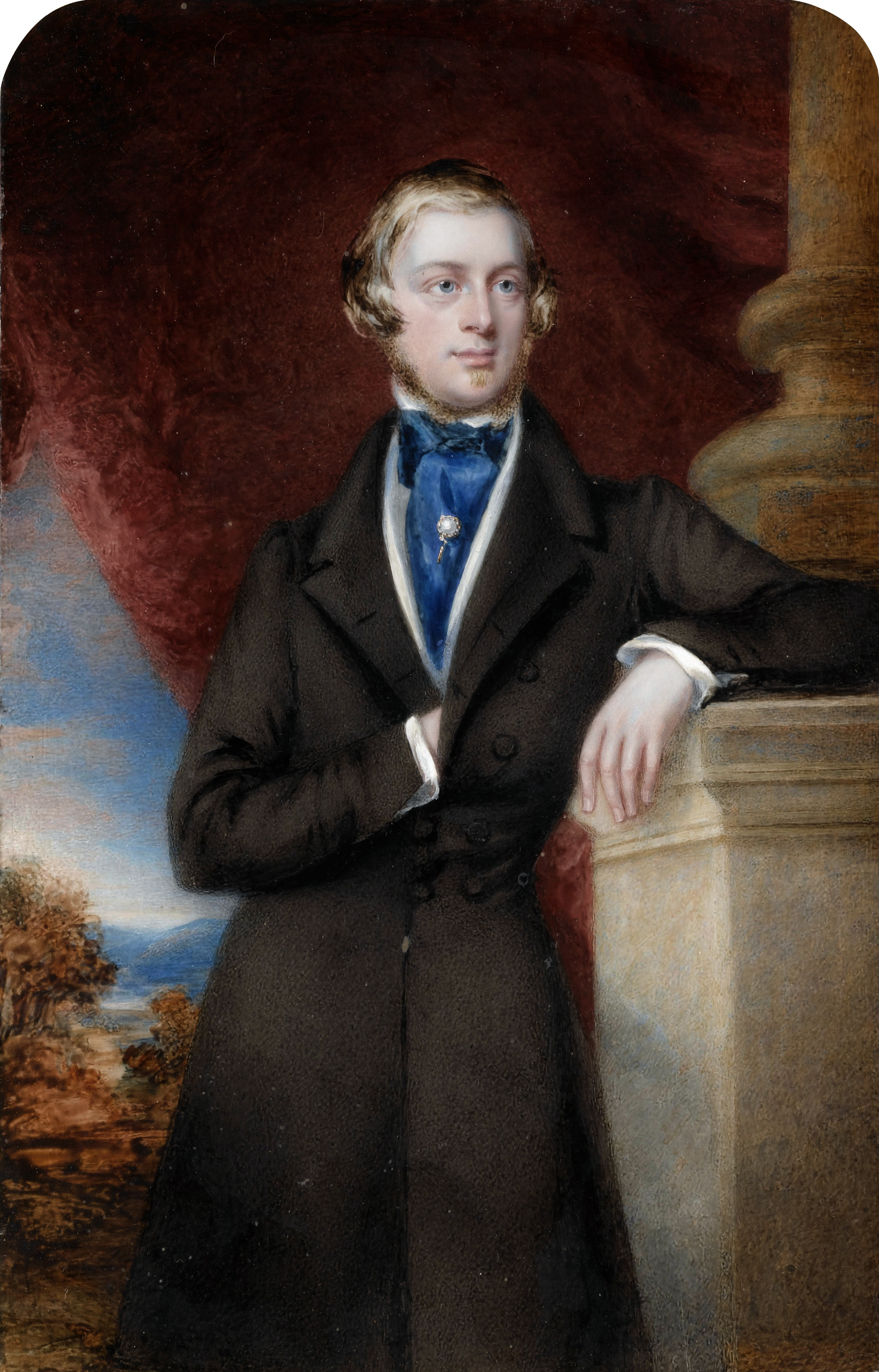 Frederick Acclom Milbank, 1st Baronet (1820-1898) watercolour on ivory 24.8 cm high inscribed verso: Portrait of Frederick Milbank Esqr / painted by / Mrs Henry Moseley / 52 Upper Charlotte Str / Fitzroy Square / August _ 1846